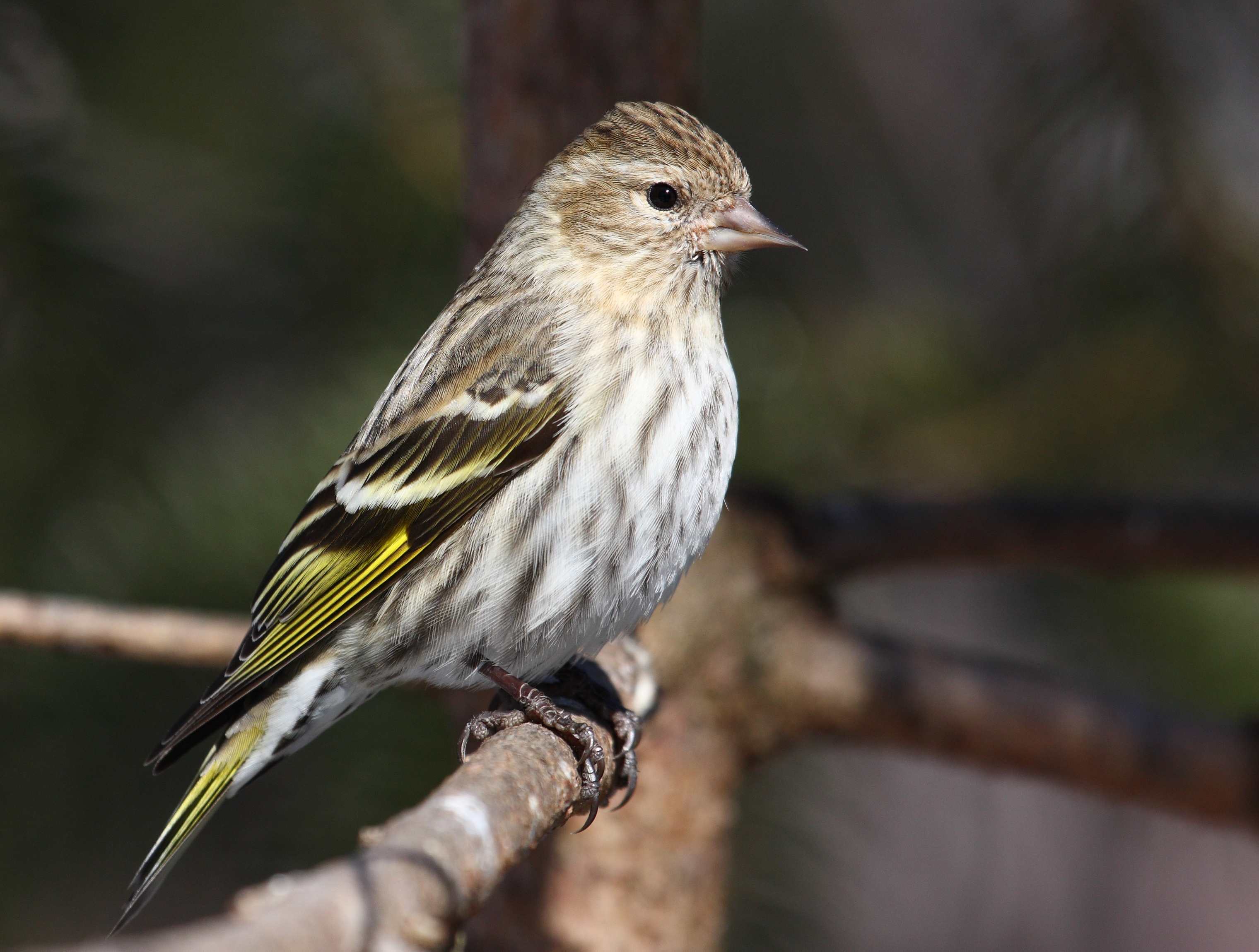 Pine siskin (Carduelis pinus), Cap Tourmente National Wildlife Area, Quebec, Canada.